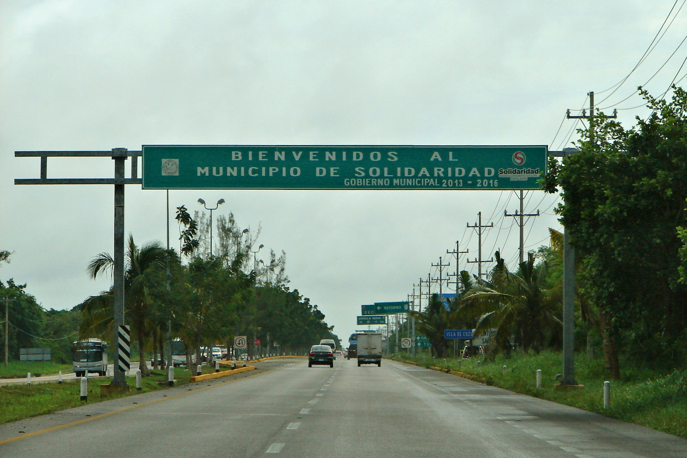 Welcome sign of Municipality of Solidaridad, Quintana Roo, Mexico